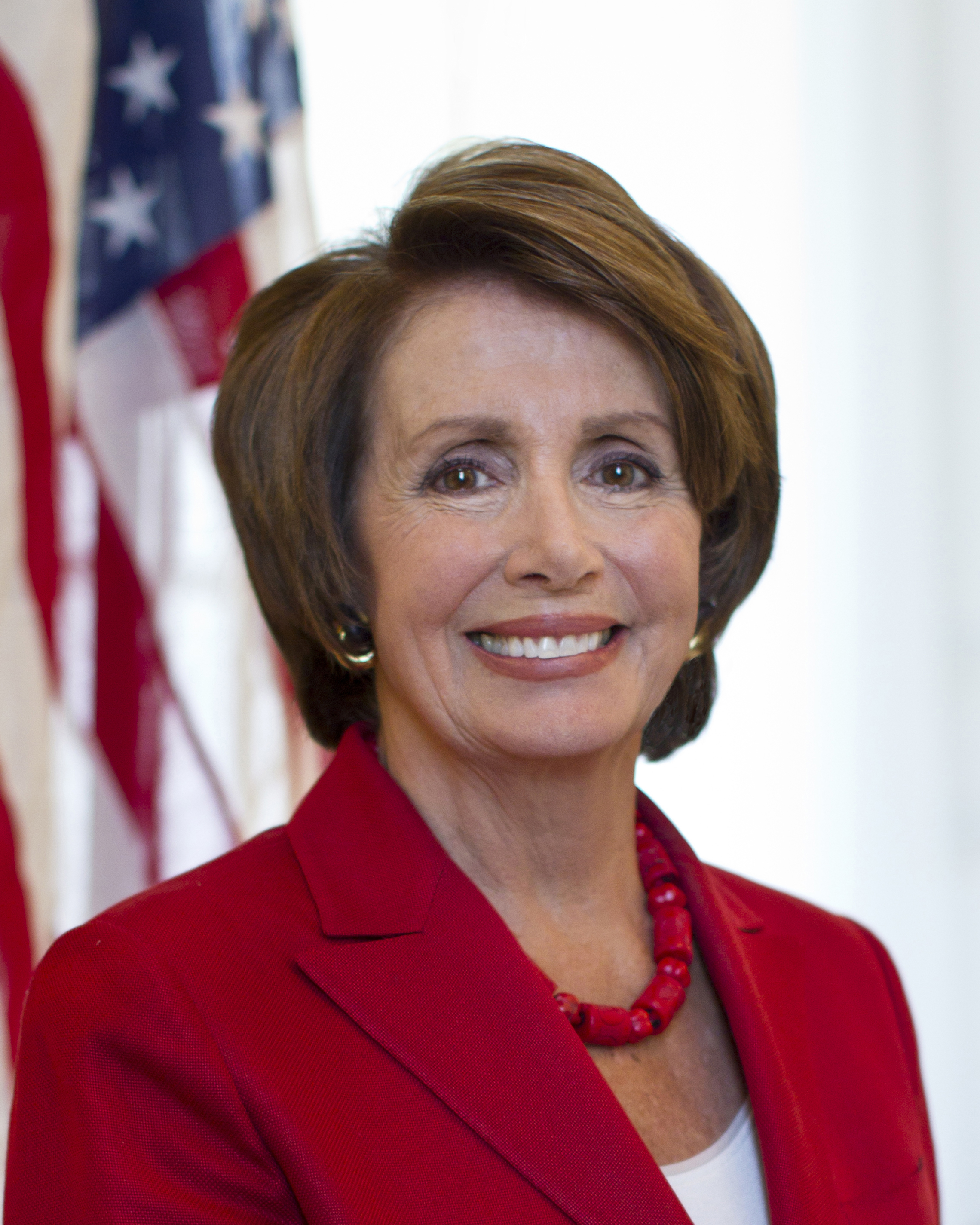 Official portrait of U.S. Representative and Speaker of the House Nancy Pelosi